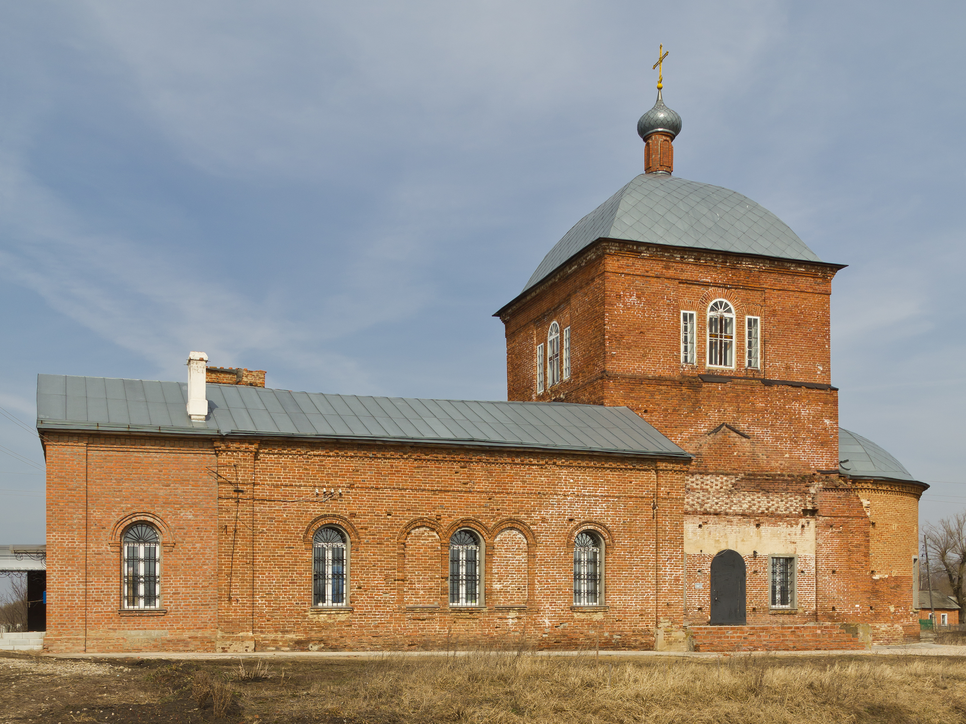 Church of the Nativity of Christ in Ryazhsk, Ryazan Oblast, Russia.